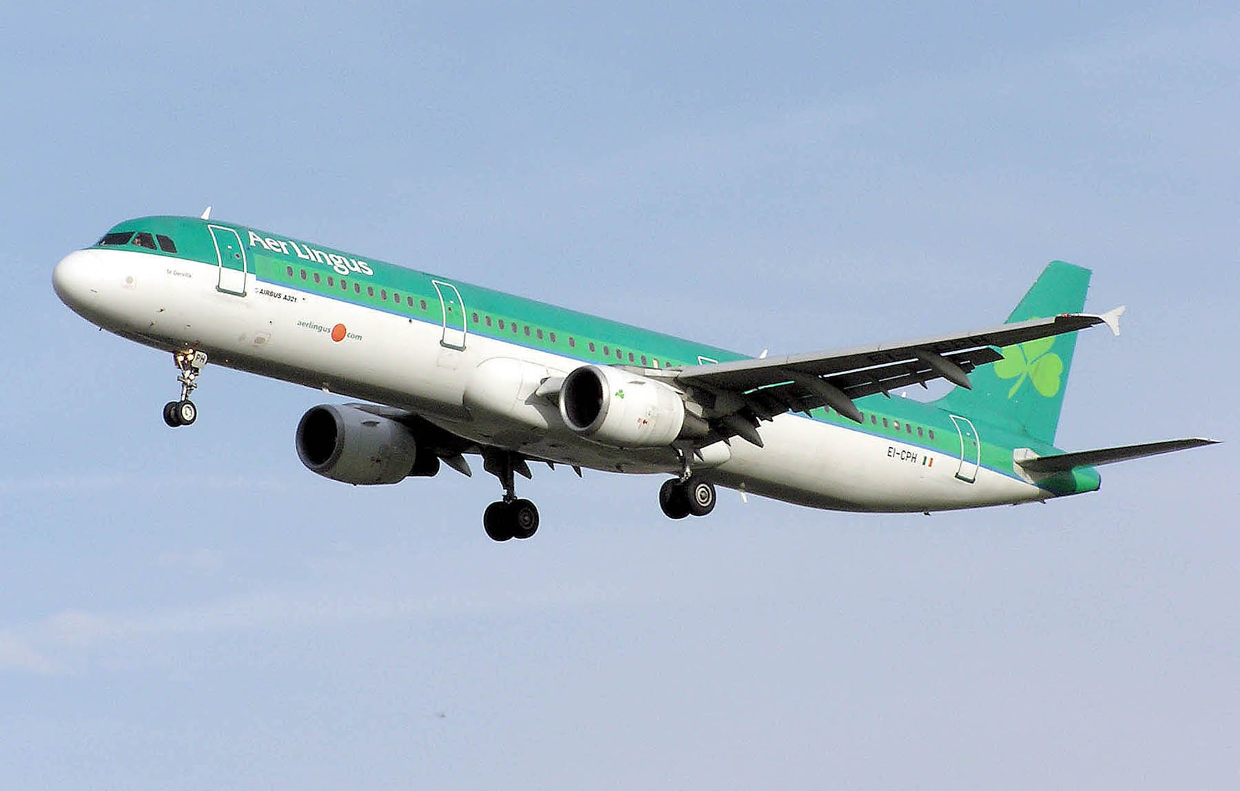 Aer Lingus Airbus A321-200 (EI-CPH) landing at London (Heathrow) Airport, England. Photographed by Adrian Pingstone in November 2005 and released to the public domain.